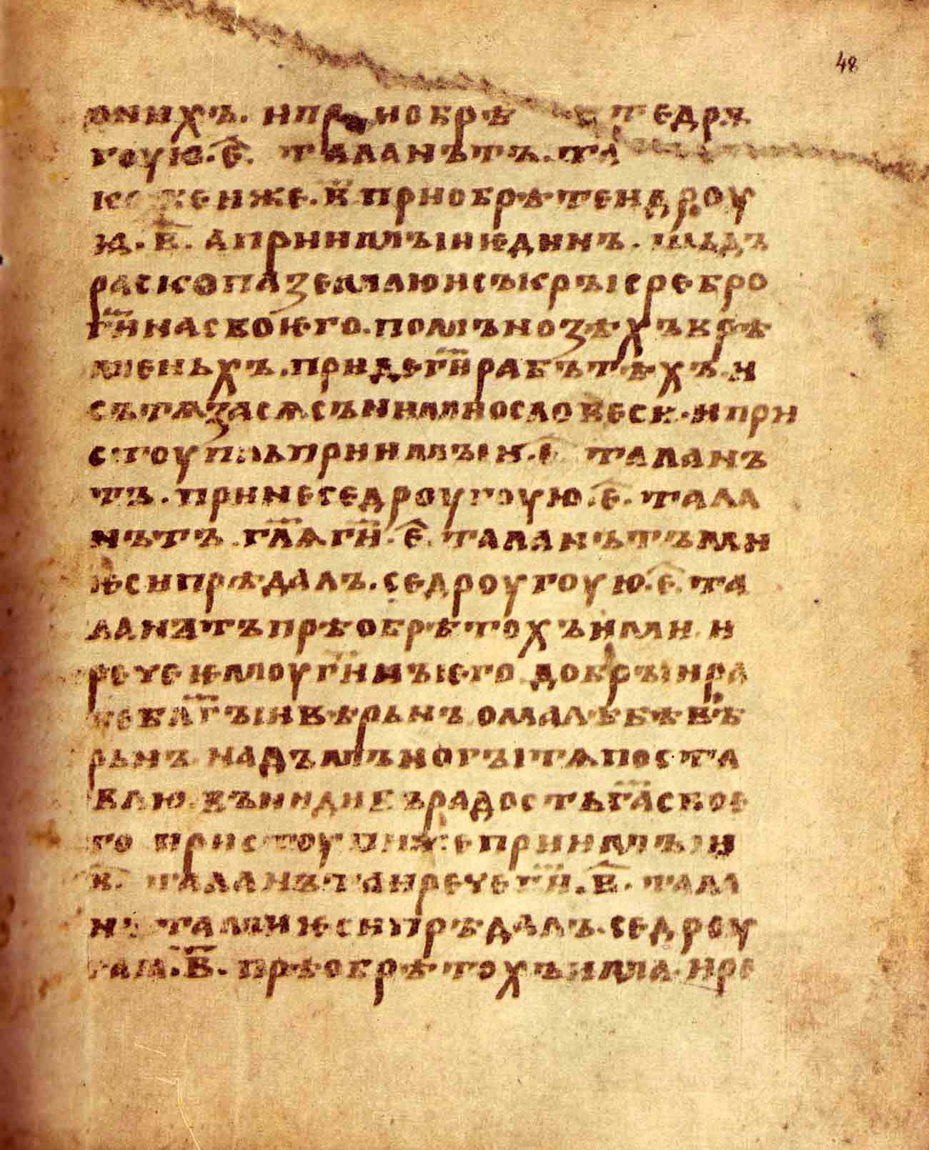 Archangel Gospel